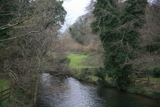 River Camel Tresarrett A view off the narrow road bridge at the river. A fine river fronting house is on the right with wonderful fishing alongside from the garden. This must be an angler's dream house.